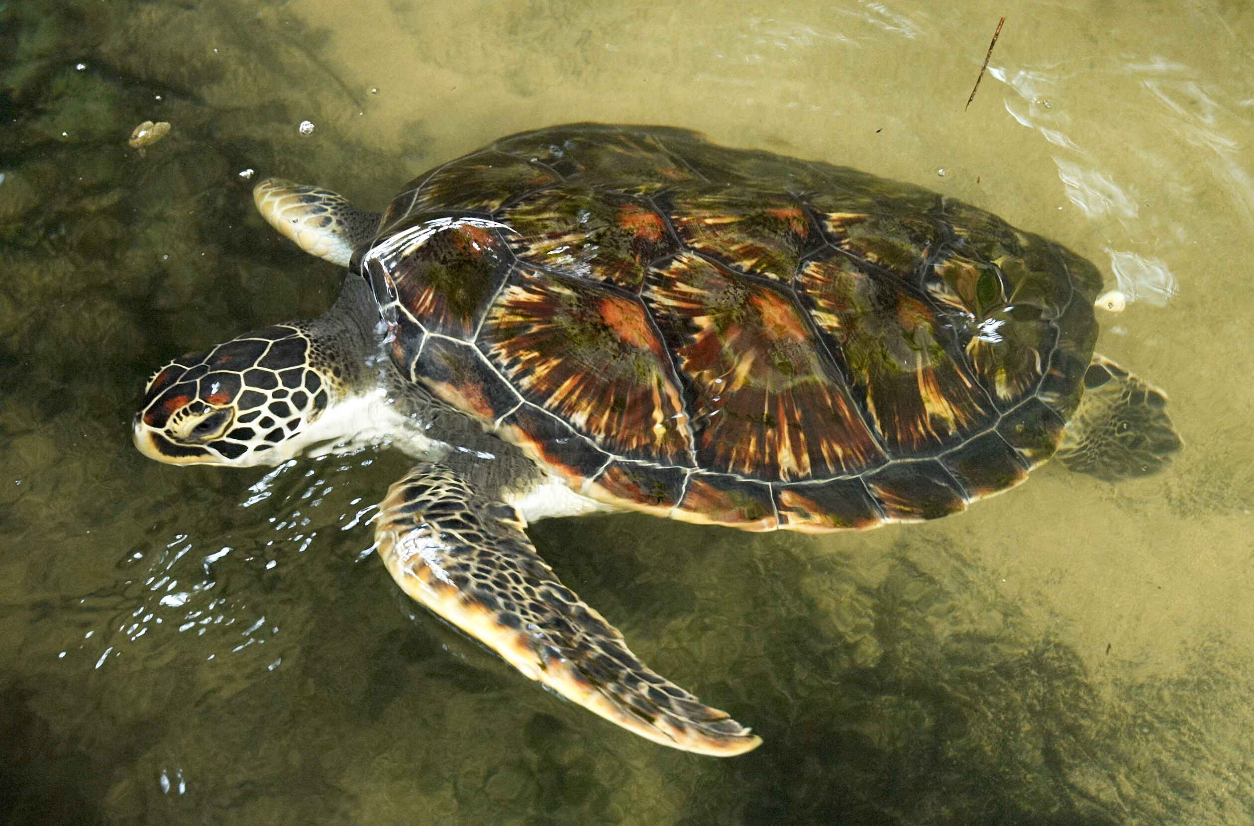 Turtle project in Bentota, Sri Lanka. Place is approximately at the coordinates given. Other photos at the same spot